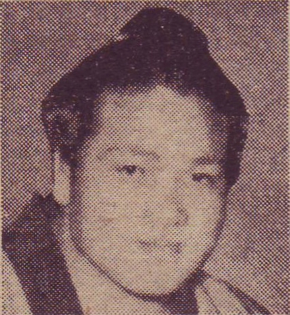 Toyonobori. taken in 1954, or before that.